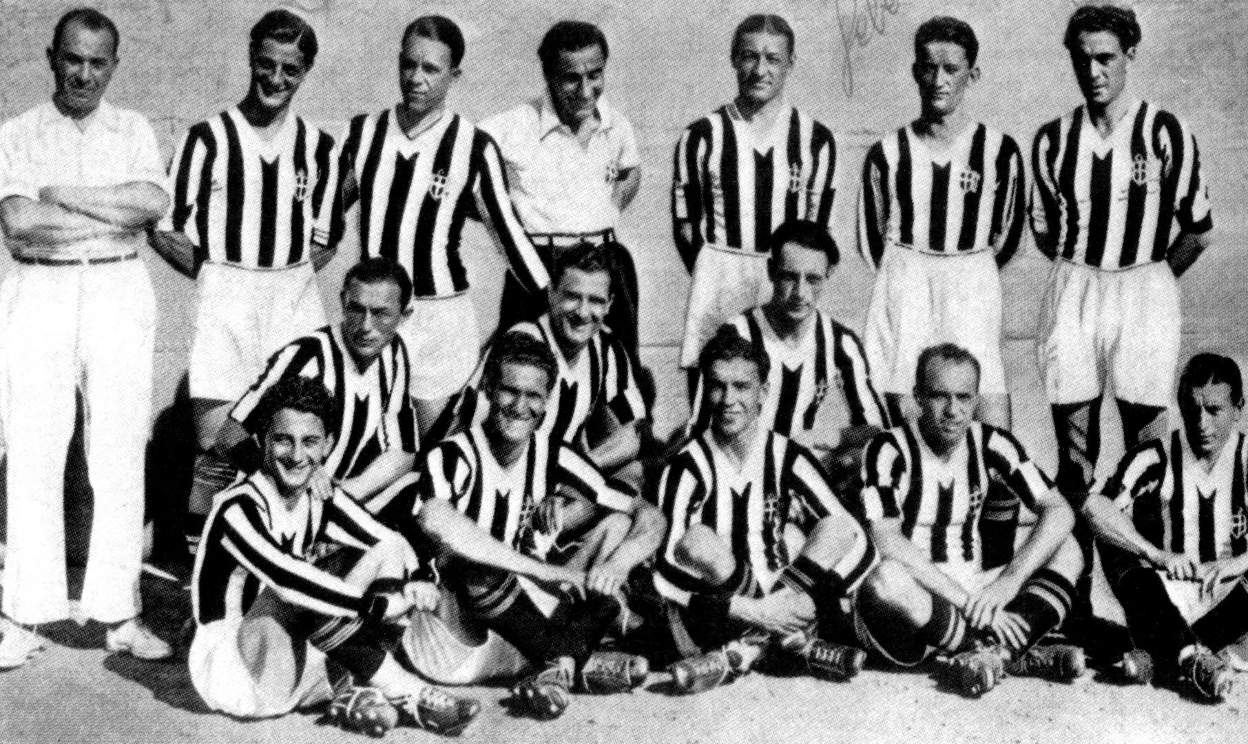 The first-team squad of F.B.C. Juventus in the 1932–33 season. From left to right, top: C. Carcano (coach), R. Cesarini, V. Rosetta (captain), G. Combi, U. Caligaris, M. Ferrero, F. Munerati; middle: M. Varglien (I), L. Monti, L. Bertolini; bottom: P. Sernagiotto "Ministrinho", G. Varglien (II), F. Borel (II), G. Ferrari, R. Orsi.